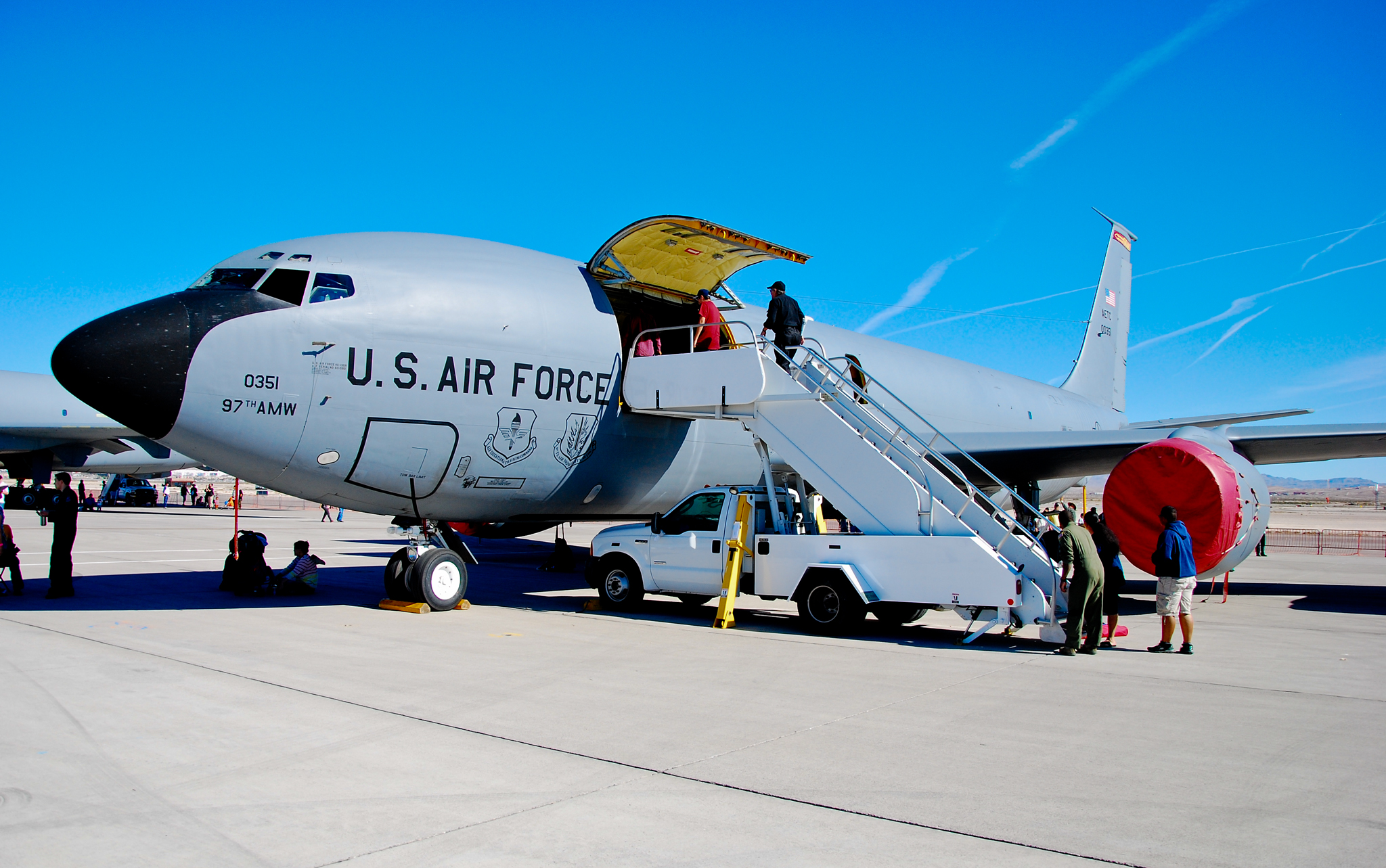 Las Vegas - Nellis AFB (LSV / KLSV) Aviation Nation 2014 Air Show USA - Nevada, November 8, 2014 Photo: TDelCoro